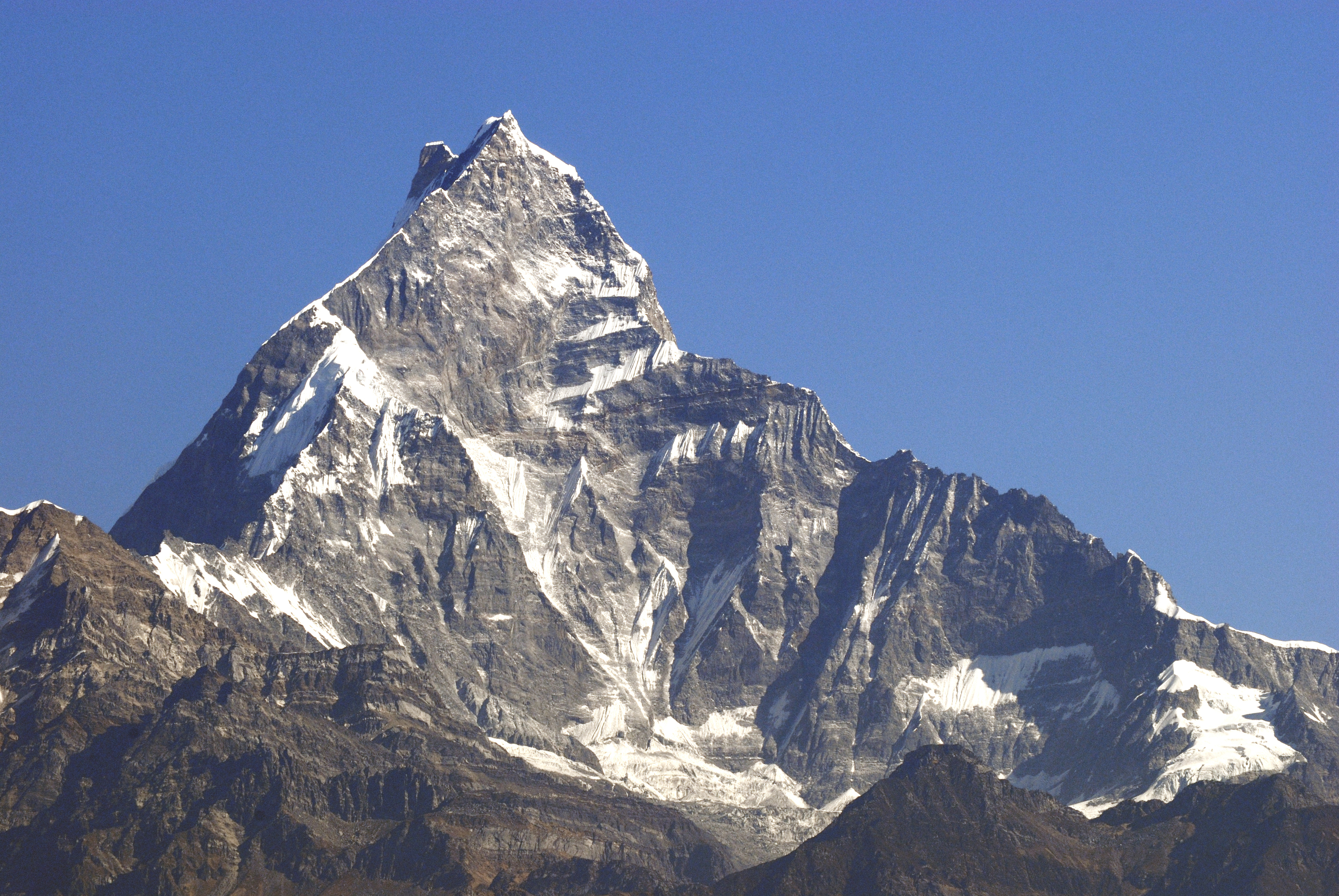 Sacred mountain Macchapuchare, 6997 m high